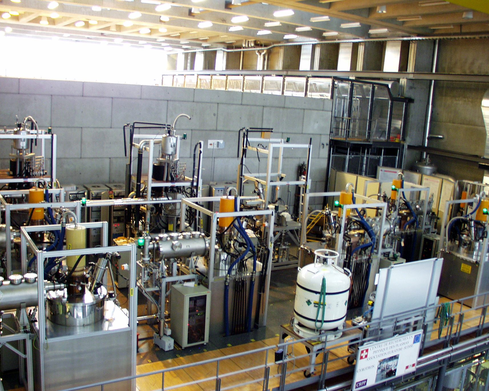 Set of millimeter wave (84 GHz and 118 GHz) gyrotron tubes for plasma heating by electronic cyclotronic waves at Tokamak à Configuration Variable (TCV) an experimental tokamak fusion reactor at École polytechnique fédérale de Lausanne, Lausanne, Switzerland which has been used in research since it was built in 1992. Courtesy of CRPP-EPFL, Association Suisse-Euratom